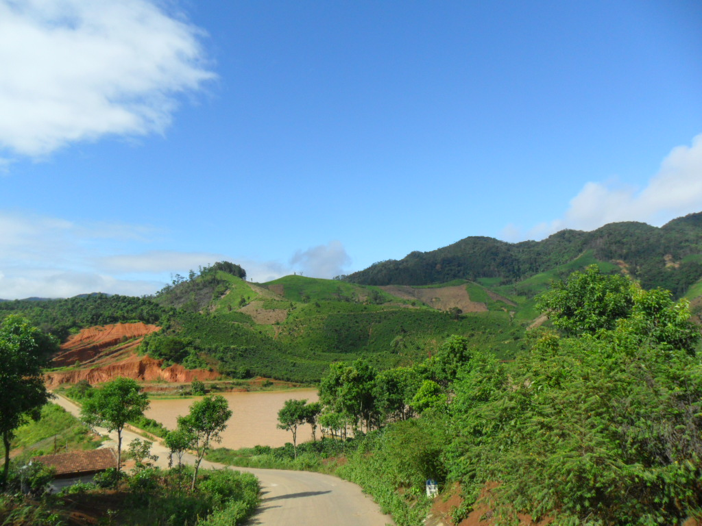 Landscape in Kon Tum province, Vietnam.